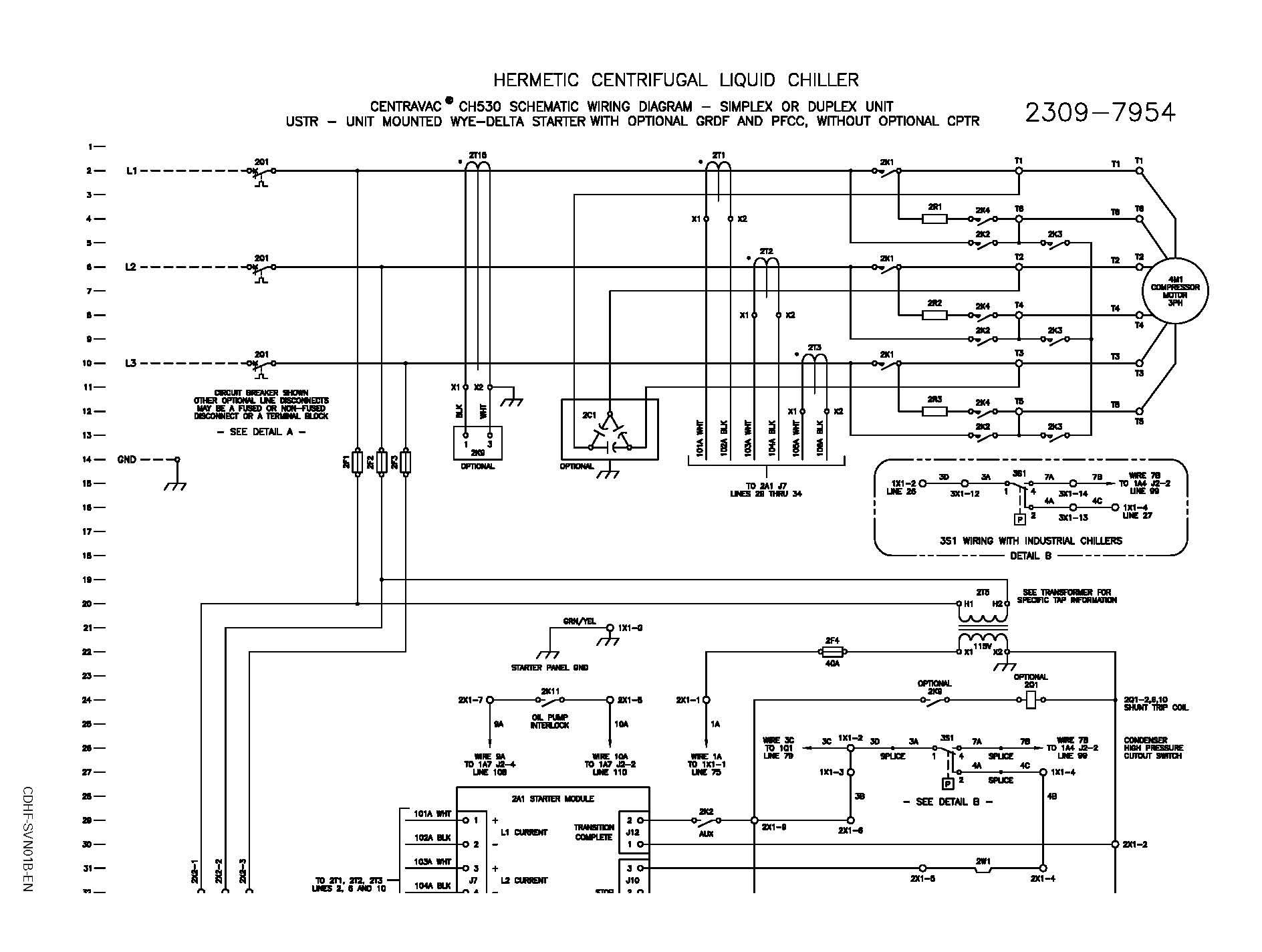 Trane Chiller Detail Selected from Installation Guide